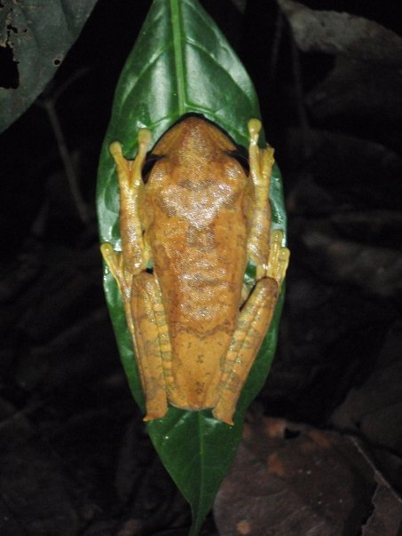 Hypsiboas geographicus (Rana geographica), varzea forest, Lago Preto Conservation Concession, Loreto Regio, Peru